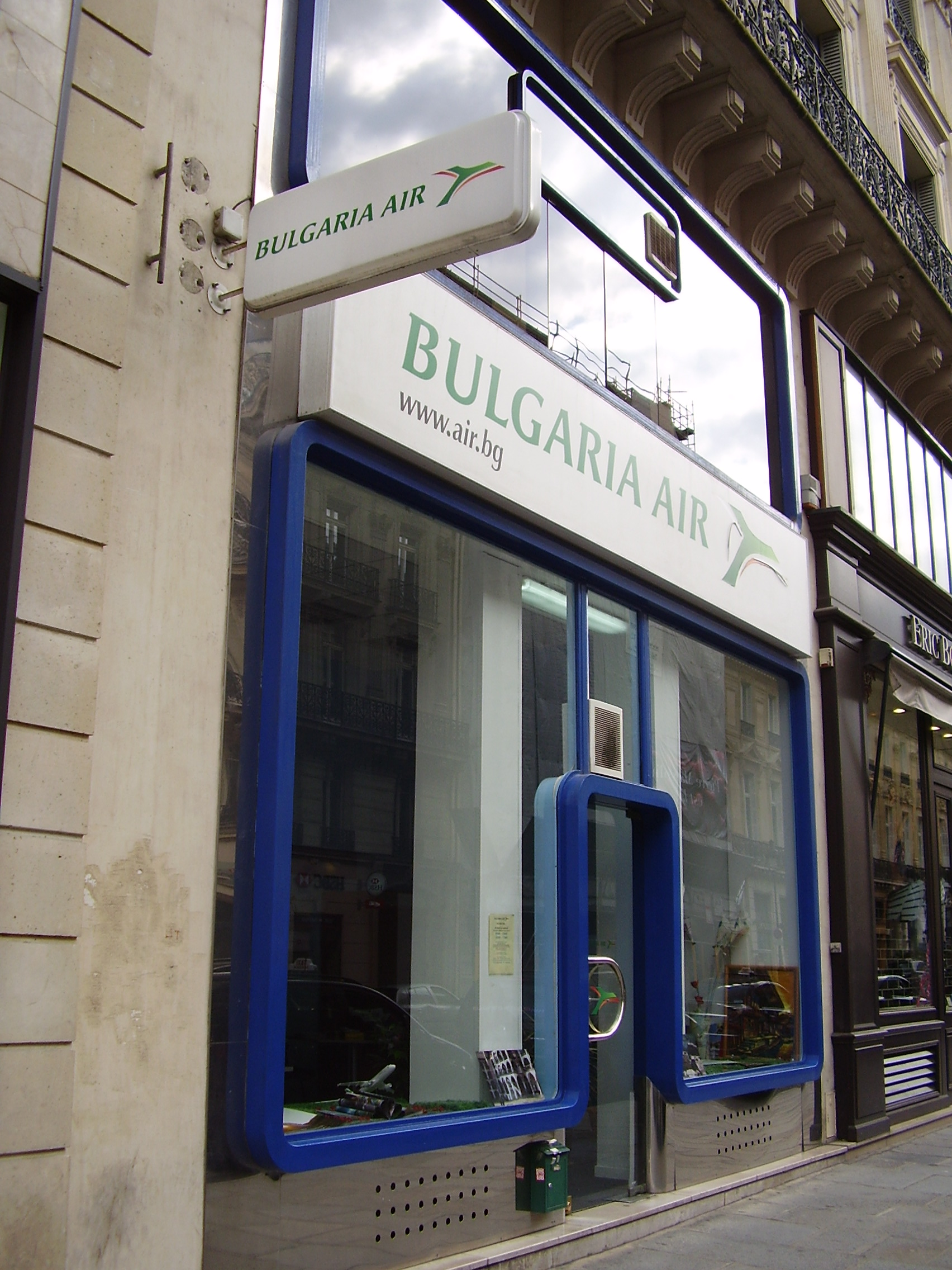 Bulgaria Air office - 4 Rue Scribe, Paris 75009